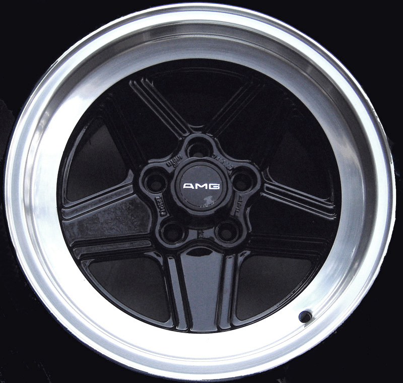 Photograph of a circa 1984 AMG 8JX16 Five Spoke aluminum alloy wheel manufactured by ATS. Designed by H.W. Aufrecht in 1979 and the first aluminum alloy wheel marketed by AMG when it was still an independent tuning company.